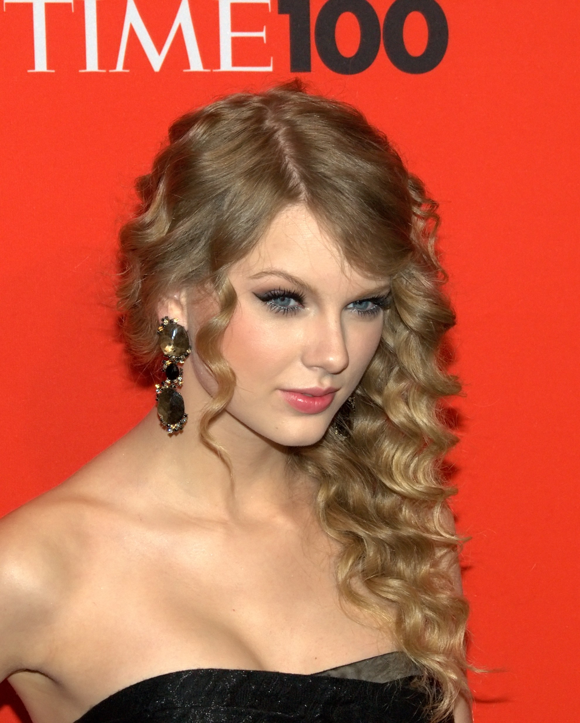 Taylor Swift at the 2010 Time 100.